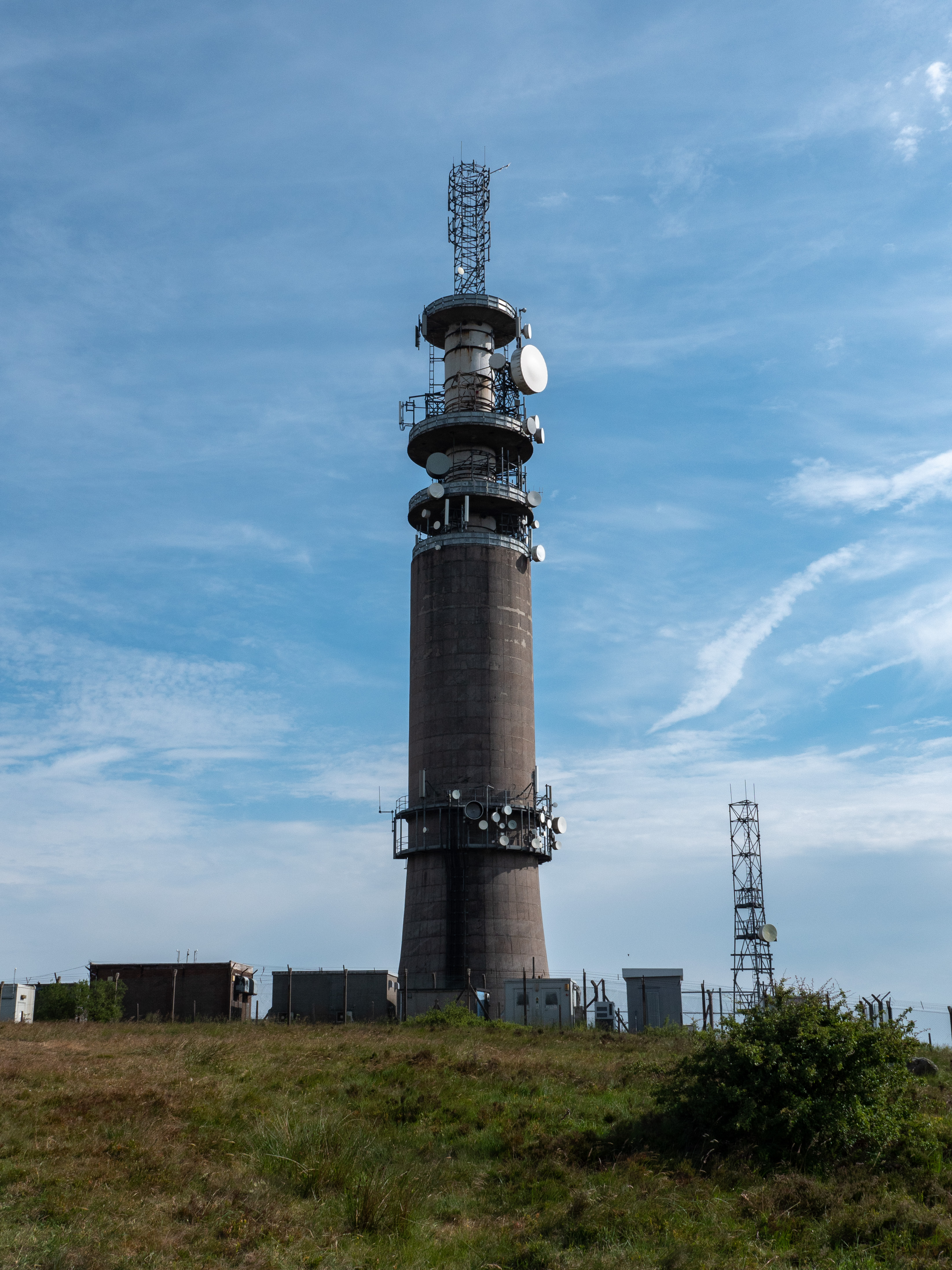 Sutton Common BT Tower in 2018.